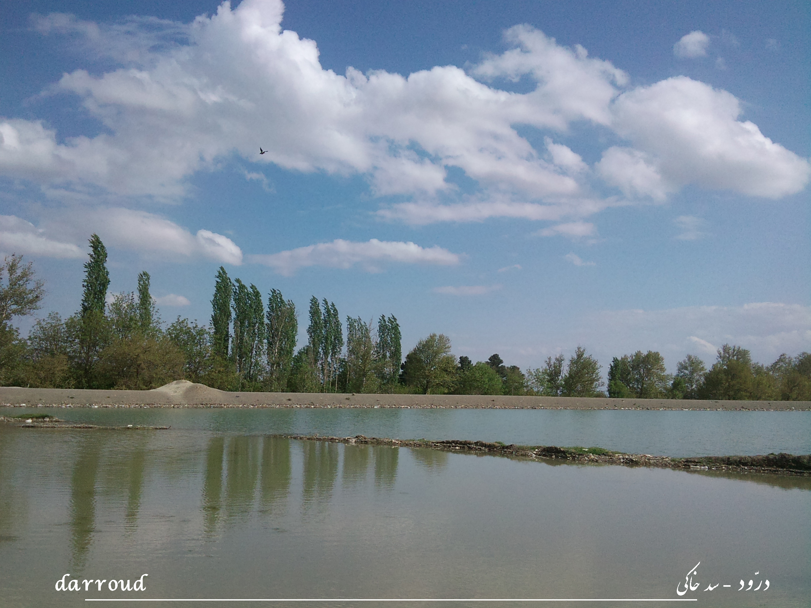 Dam in Darrud (Persian: درود, also Romanized as Darrūd and Dar Rūd), Zeberkhan District, Nishapur County, Razavi Khorasan Province, Iran